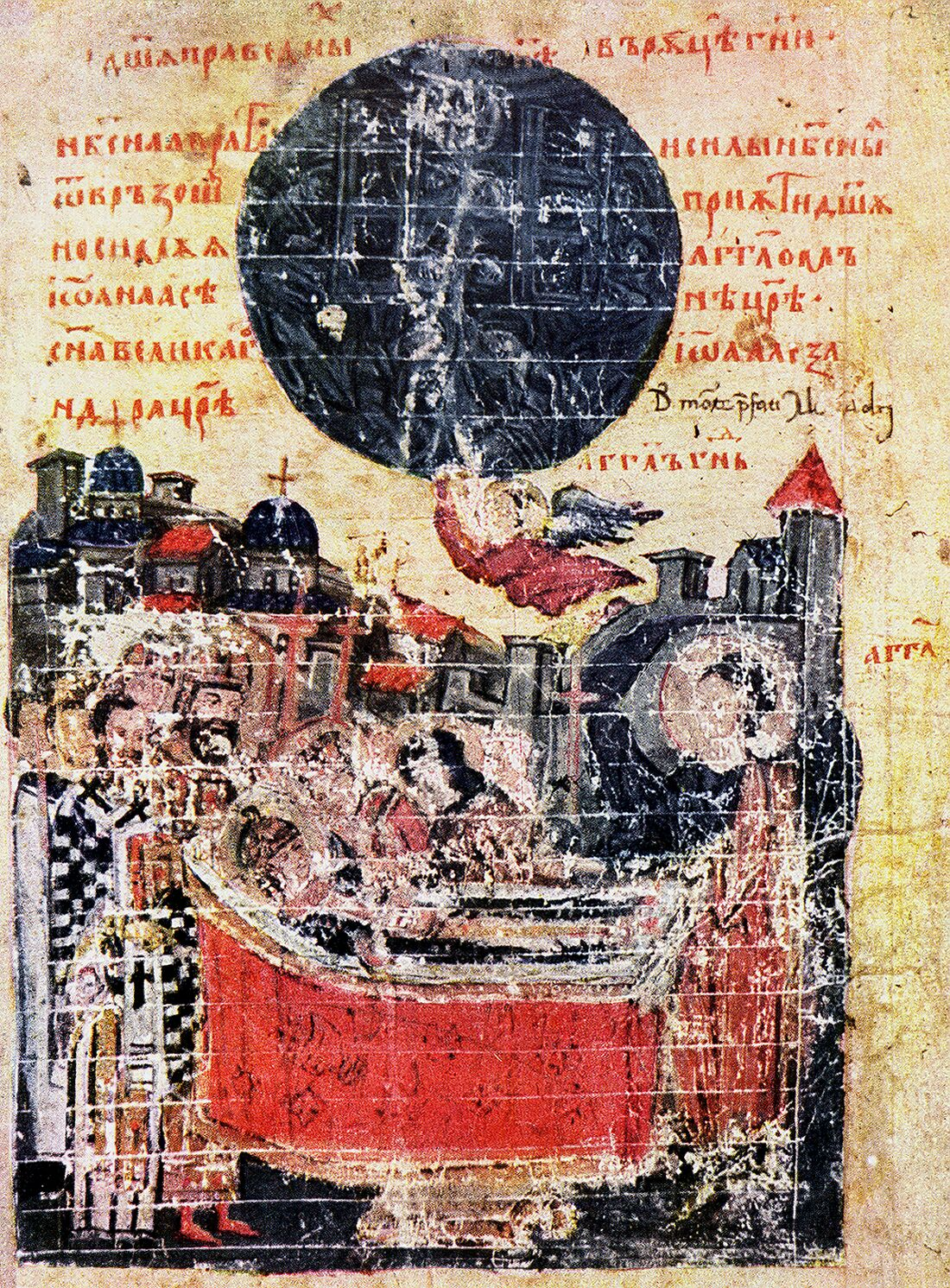 Death of Iwan Assen son of Iwan Alexander